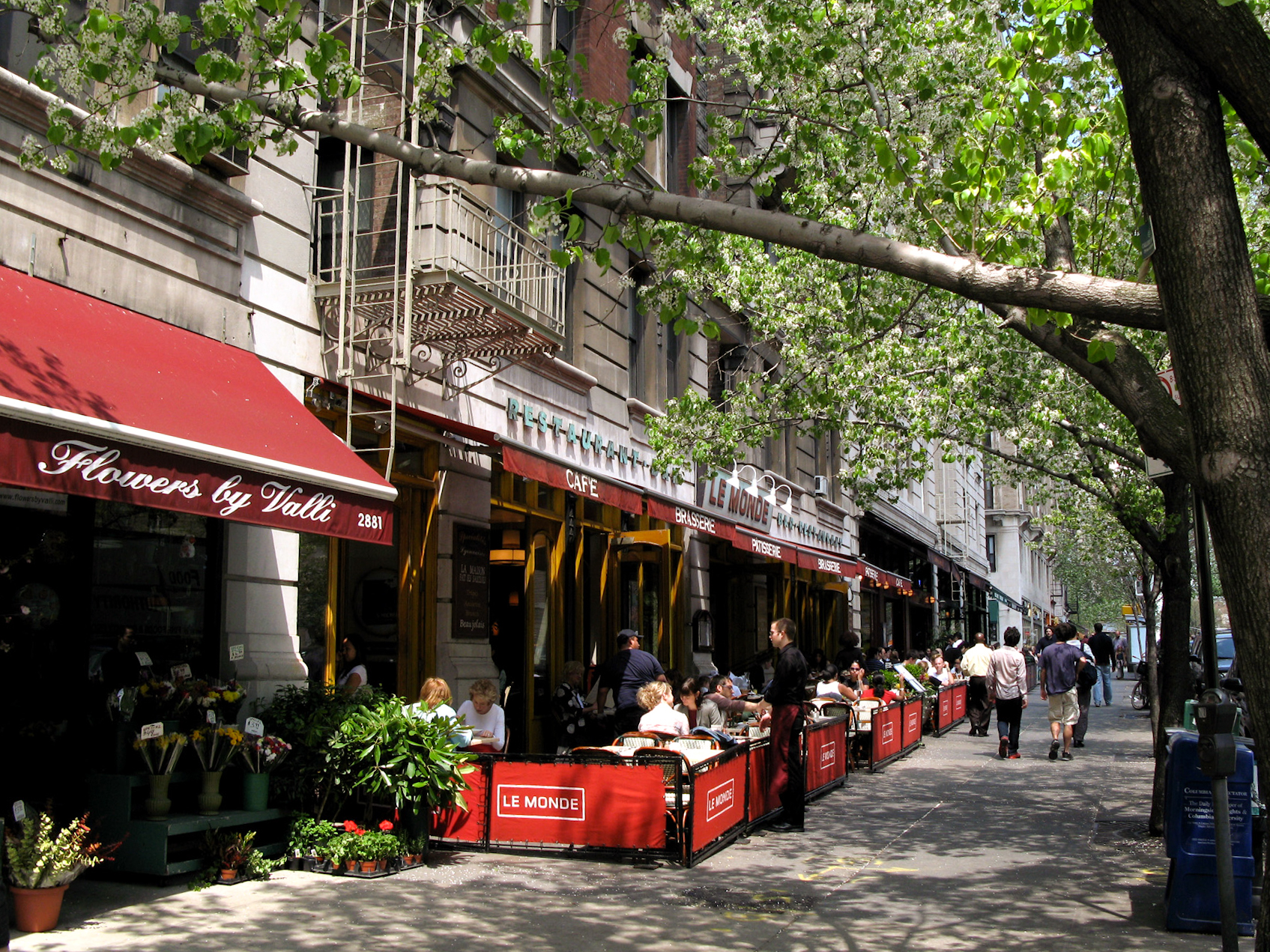 Sidewalk cafe on Broadway, Morningside Heights, New York City